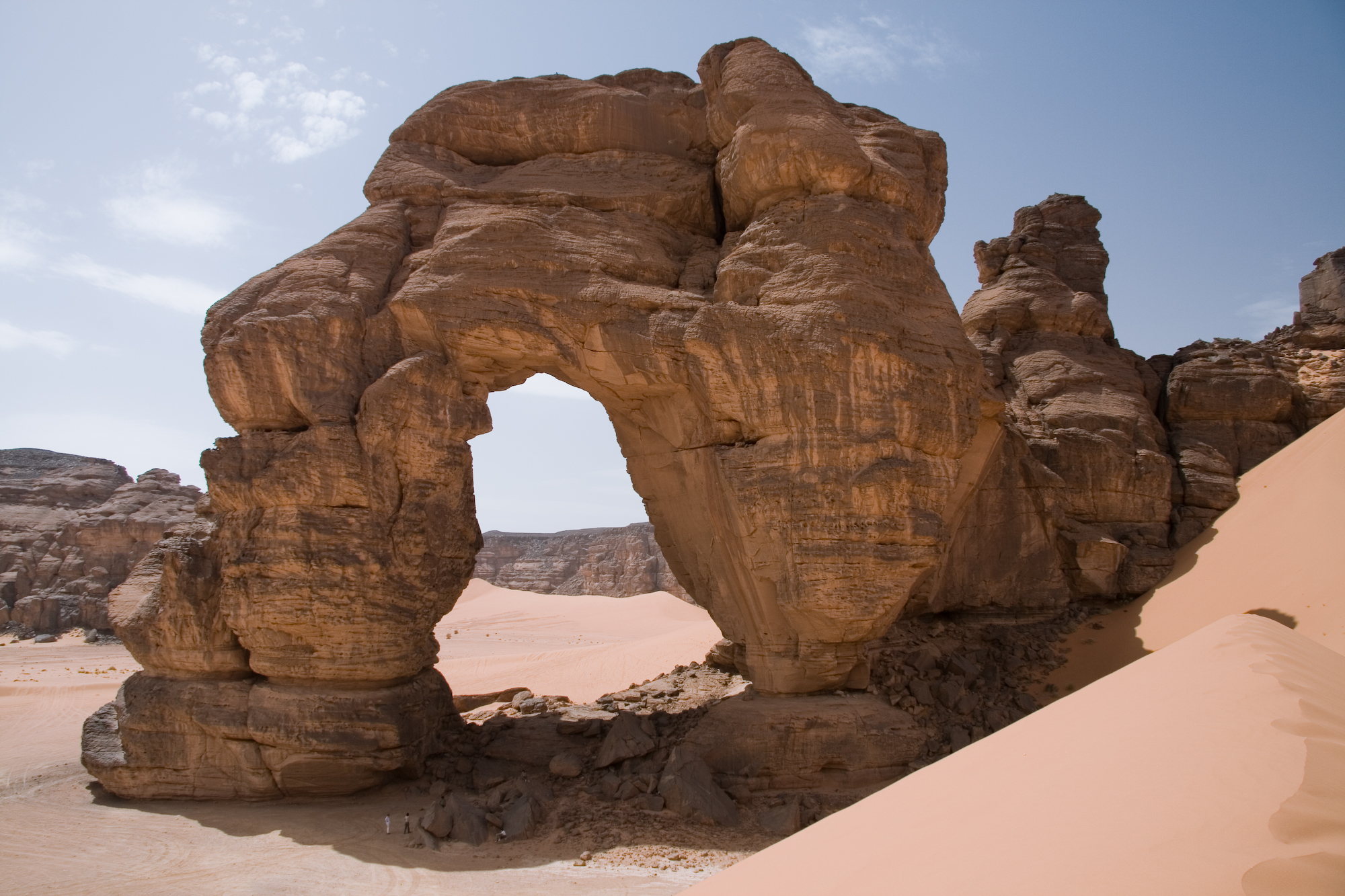 Forzhaga Arch in Tadrart Acacus. This area is one of the most arid of the Sahara, located in south western Libya.